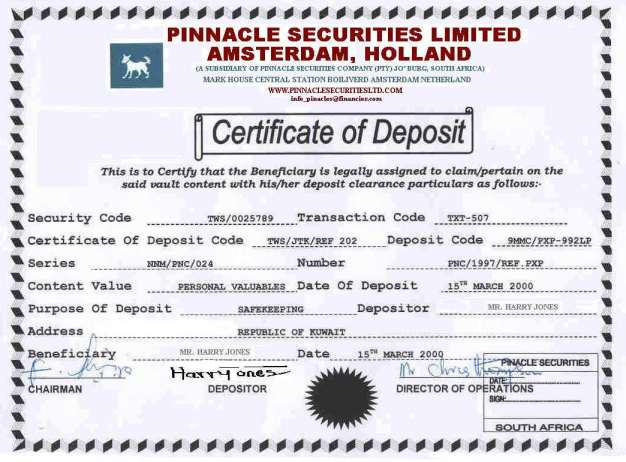 certificate of deposit